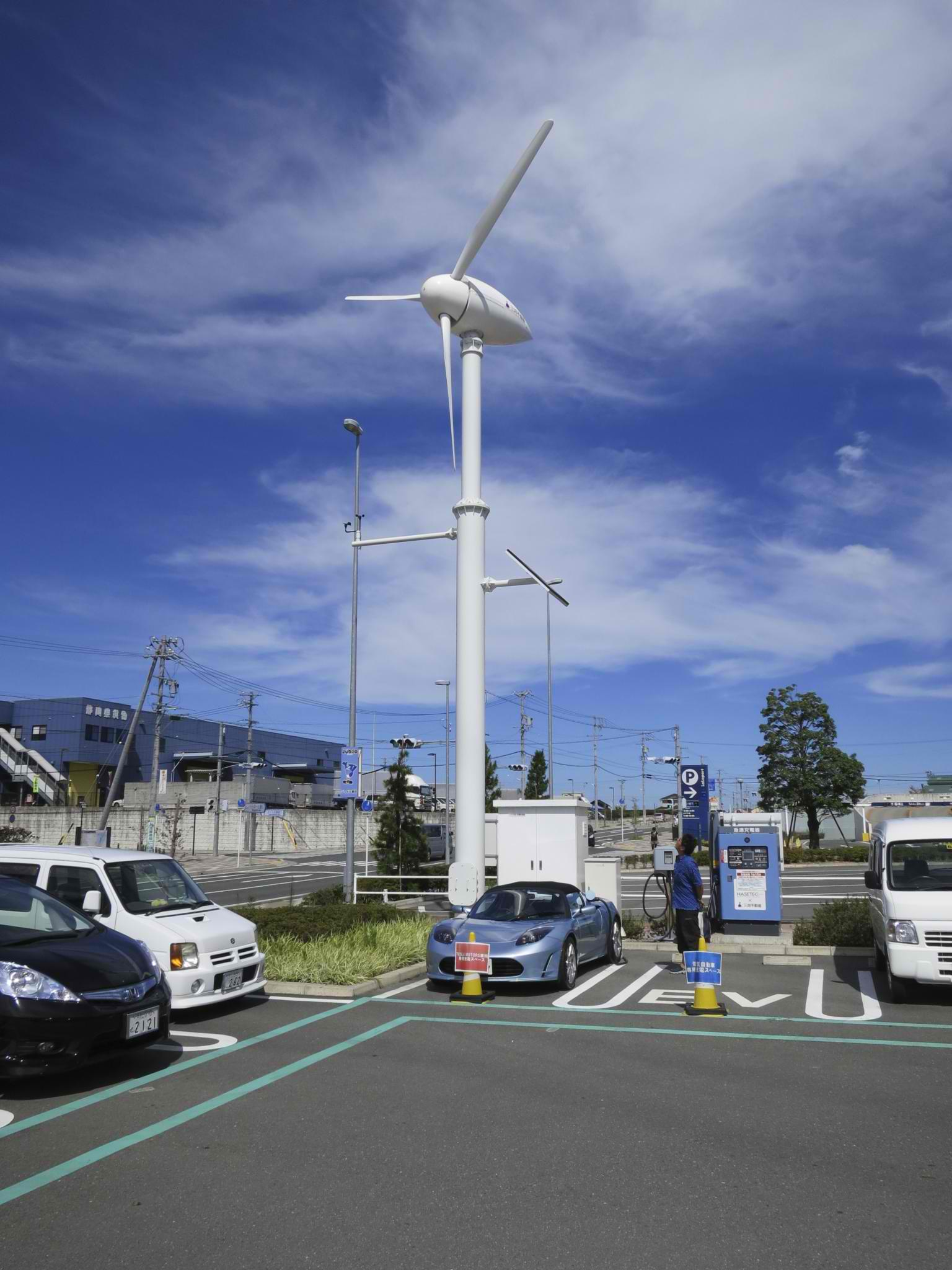 A Tesla Roadster parked in front of an electric recharging station.